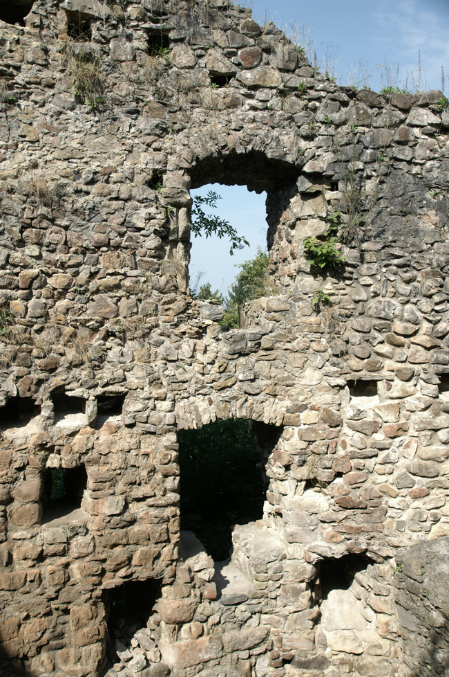 Ruine Nünegg